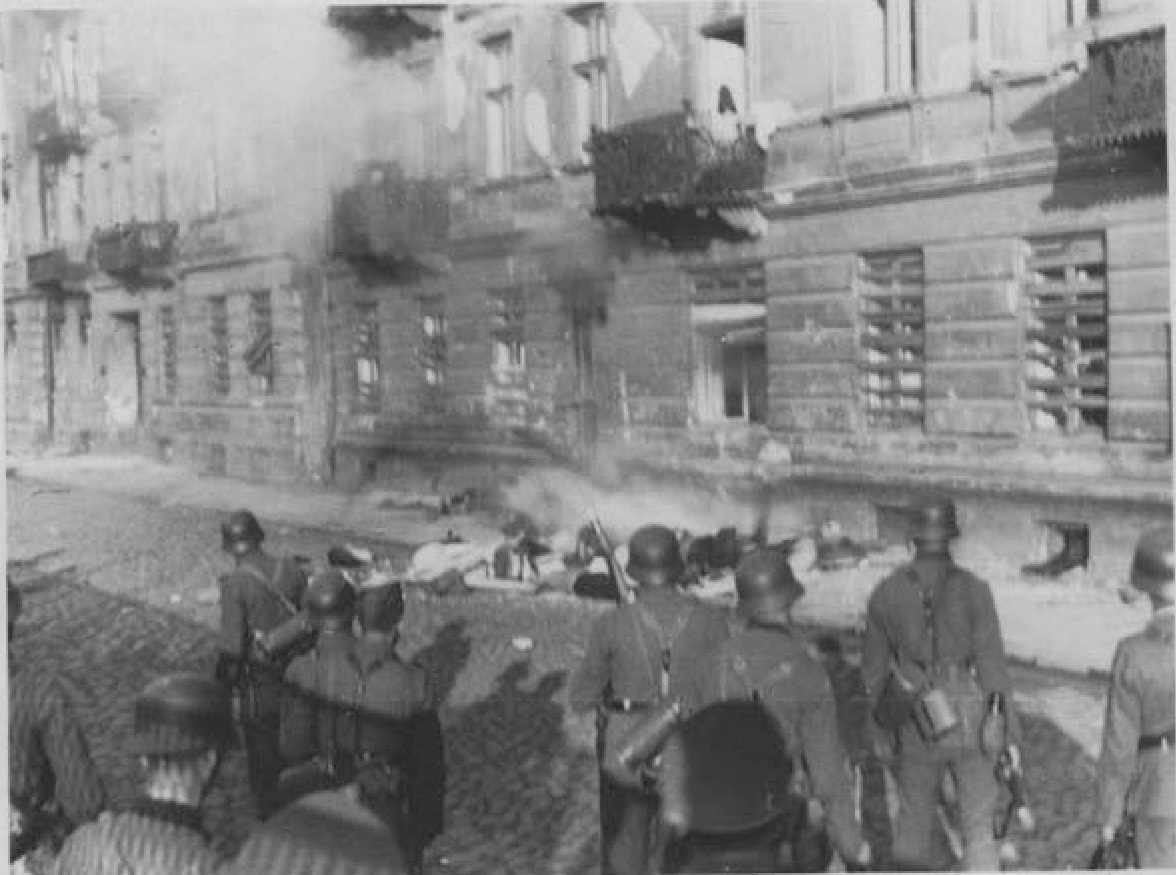 Warsaw Ghetto Uprising- SS troops stand near the bodies of Jews who committed suicide by jumping from a fourth story window rather than be captured.